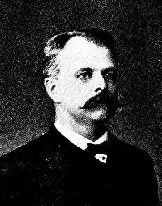 Portrait of New York state senator Amasa J. Parker Jr.